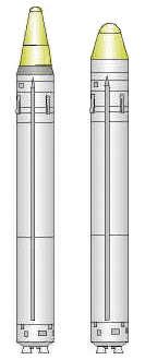 The Strela rocket can be equipped with one of two available types of space head sections (SHS-1 and SHS-2) different in dimensions of the payload accommodation zone and fairings.